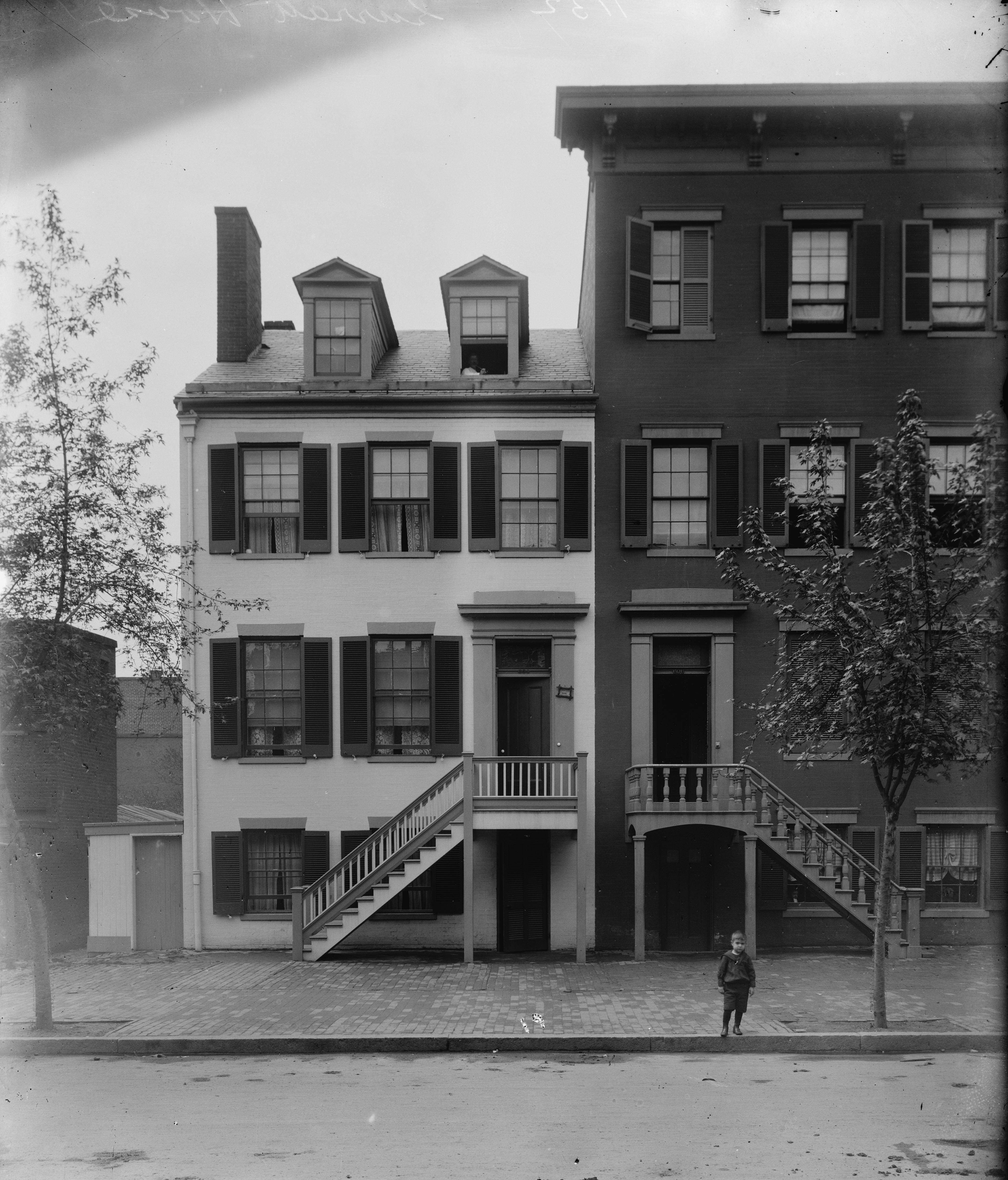 Mary Surratt's boarding house; meeting place of Lincoln conspirators. Library of Congress description: "Mrs. Mary Surratt house at 604 H St. N.W. Wash, D.C.".